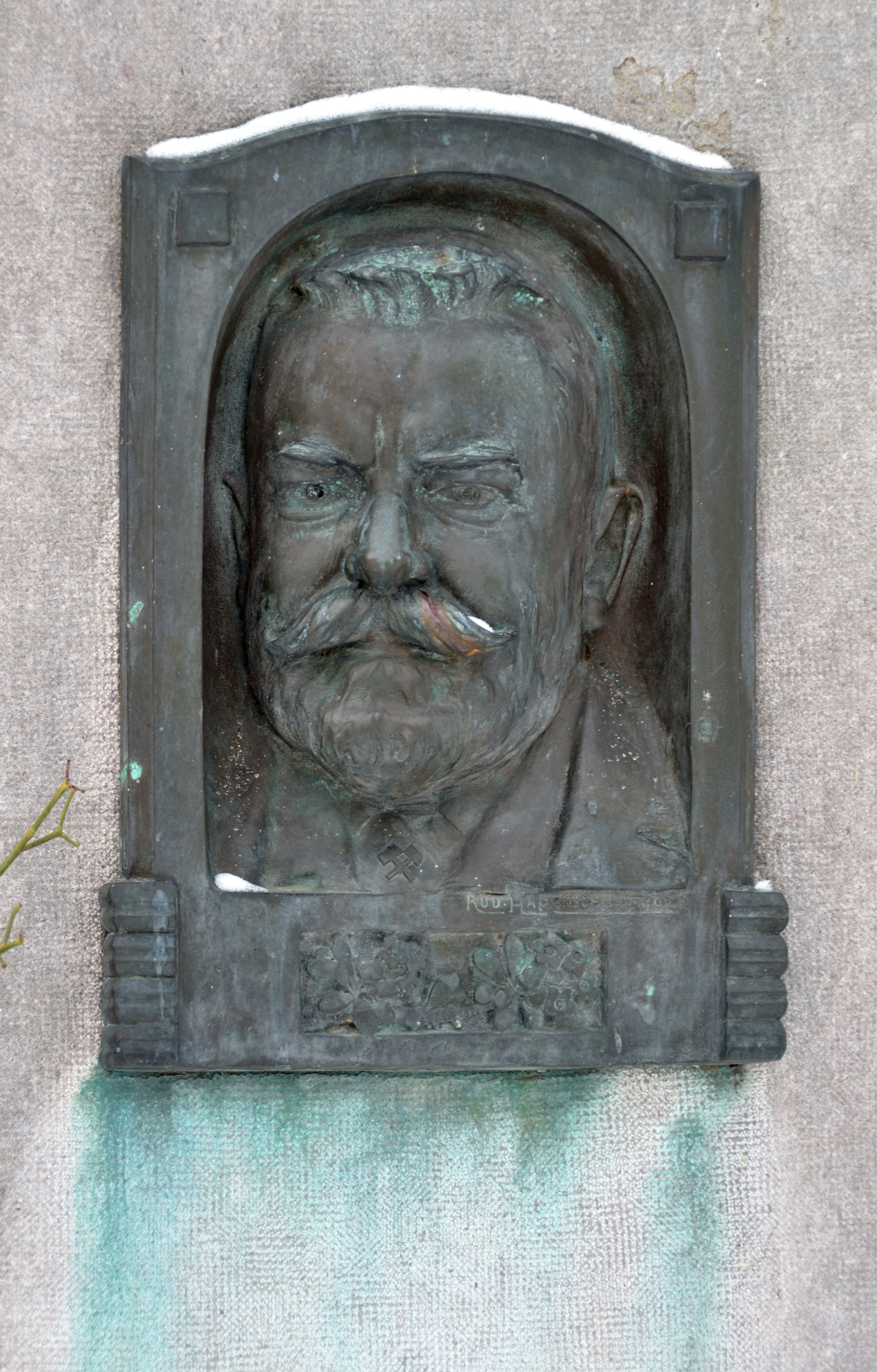 Memorial for Hans Hauenschild (1842-1901), born in Windischgarsten. The relief was created by Hauenschild's son Rudolf and the monument originally was the grave stone of Hauenschild's grave in Vouvry, Valais. The monument is located at the back side of the courthouse in Windischgarsten.